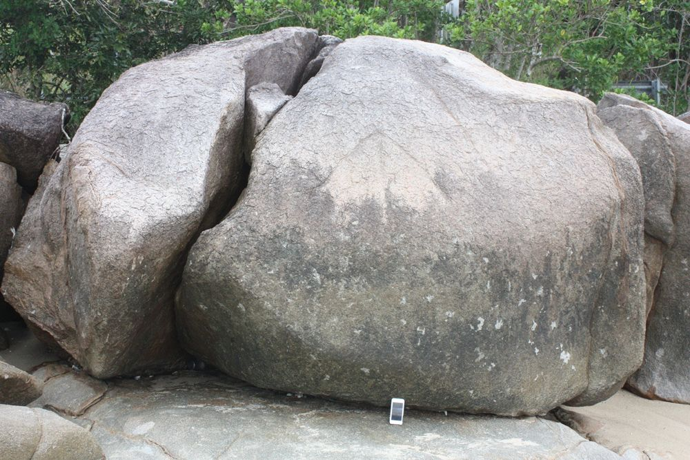 Hydrographic Survey Bench Mark, East Trinity, 2013 (see arrow on rock and phone below for scale)